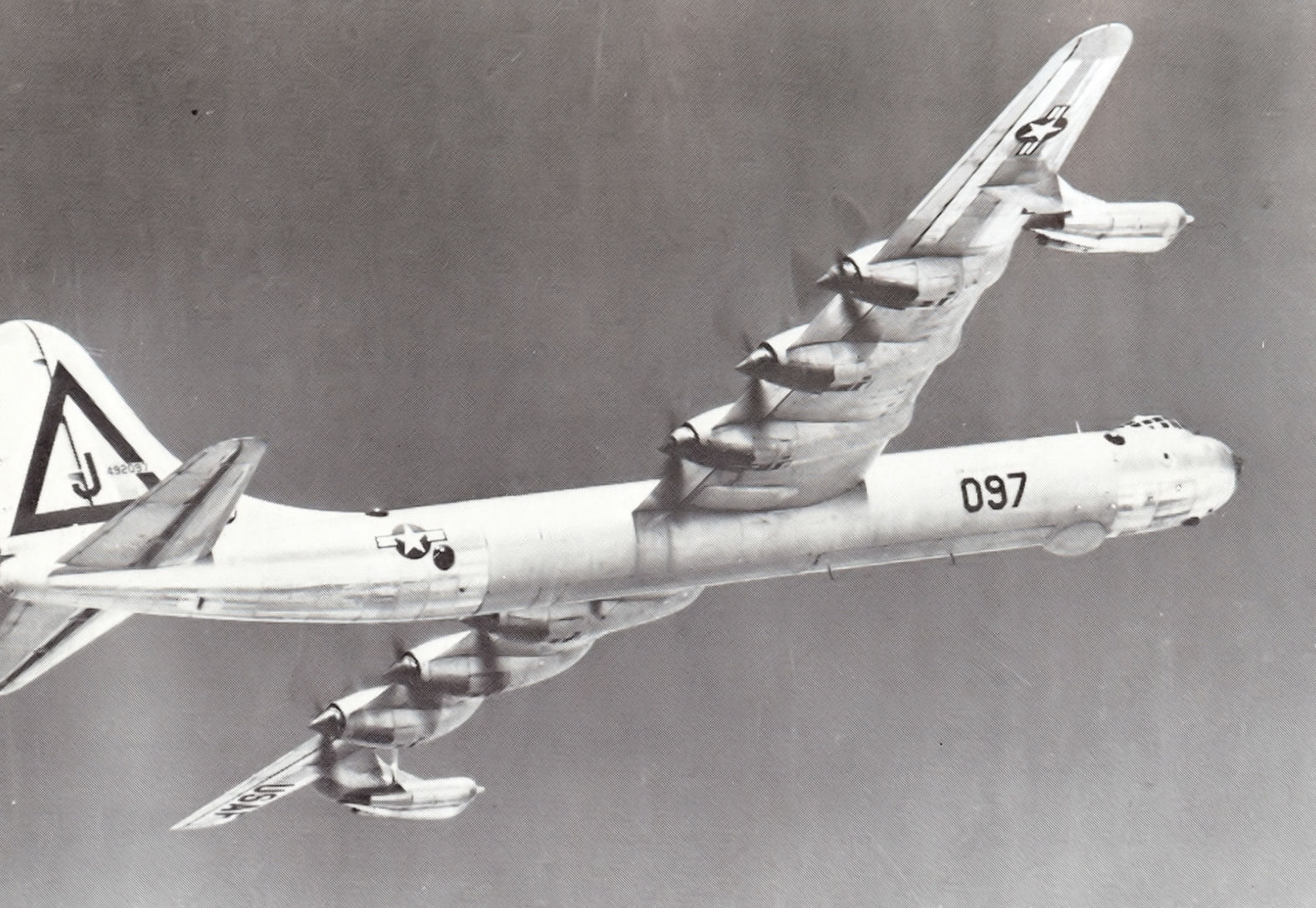 7th Bombardment Wing Consolidated B-36D-1-CF Peacemaker 44-92097, showing Triangle-J tail code. 92097 crashed near Biggs AFB 8/28/54 due to loss of engine power on practice landing approach. One crew killed